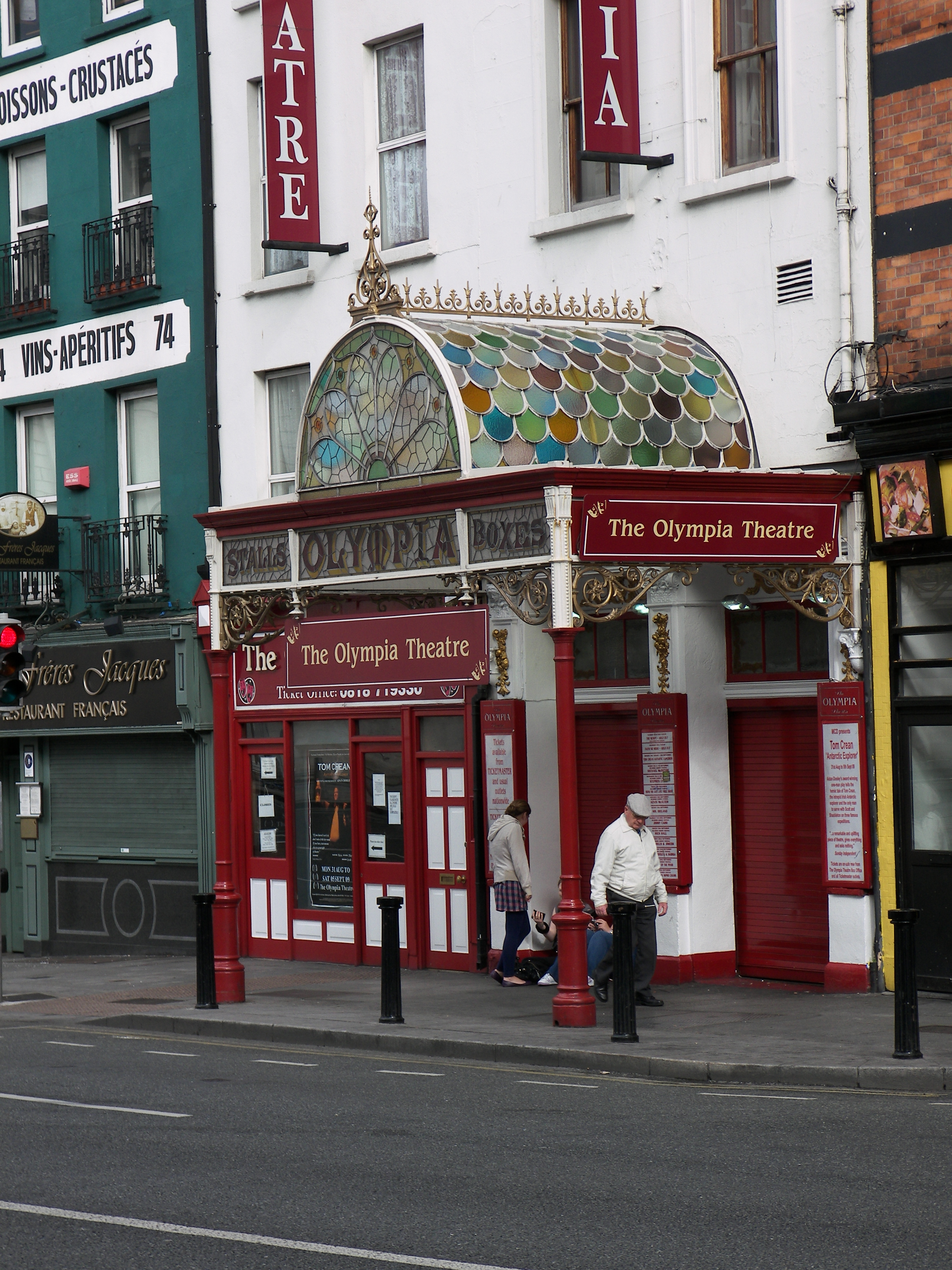 Entrance to Olympia Theatre in 2009 with the restored canopy.